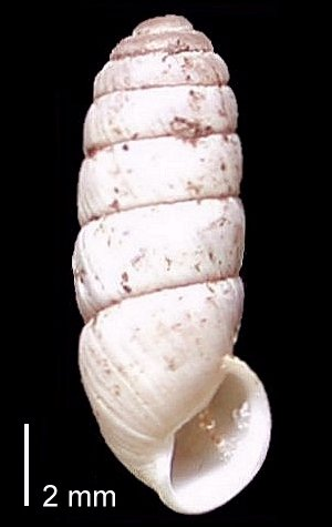 Shell of landsnail Cylindrus obtusus, modern Alpine species Collected by T. Meijer, dd september 1968, Rax Alp, altitude 1550 m. (Austria)